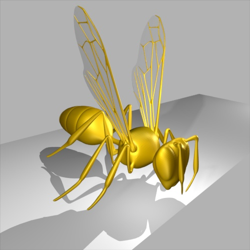 Wasp rendered with Blender, by Igor Križanovskij, 2005